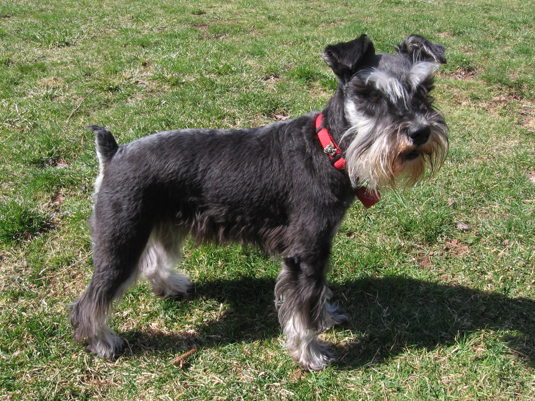 Photo of "Skyland's Heidi", a 5 year old, Canadian Kennel Club registered black-and-silver Miniature Schnauzer.